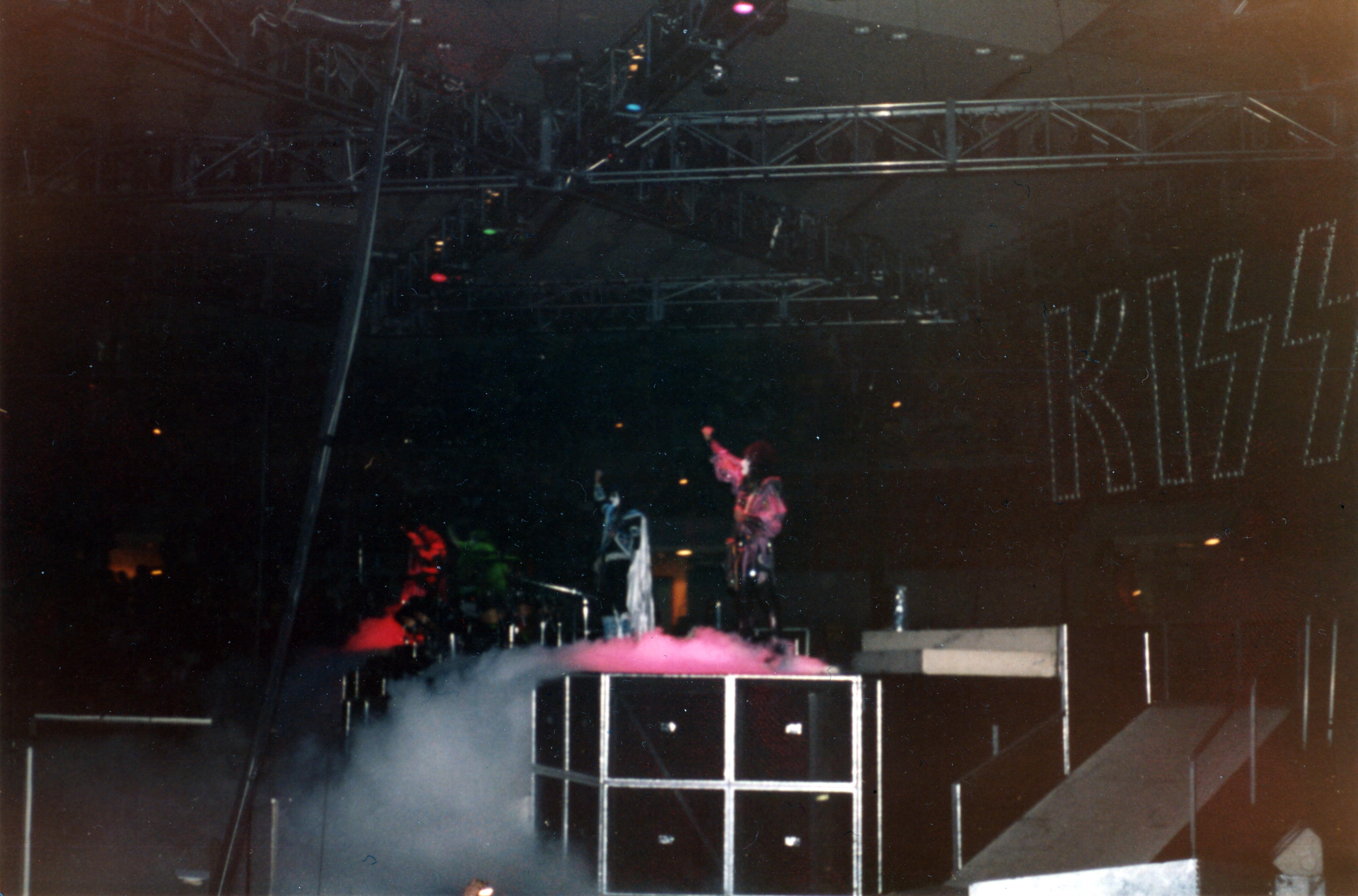 Kiss playing live in 1979.